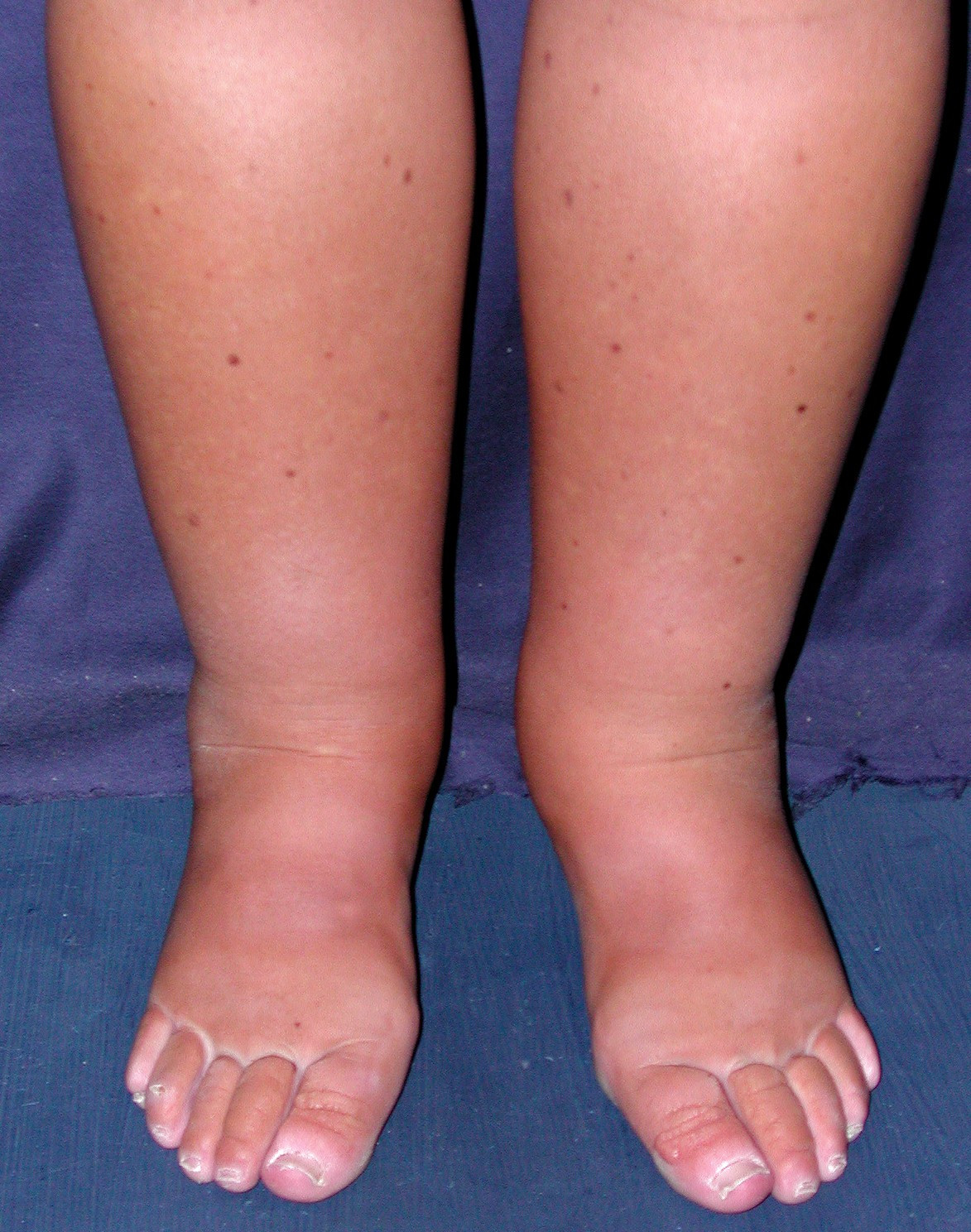 A 23-year-old woman with PIL since infancy. Note the bilateral lower limb lymphedema, with accentuation of the dorsal flexion folds of the toes.